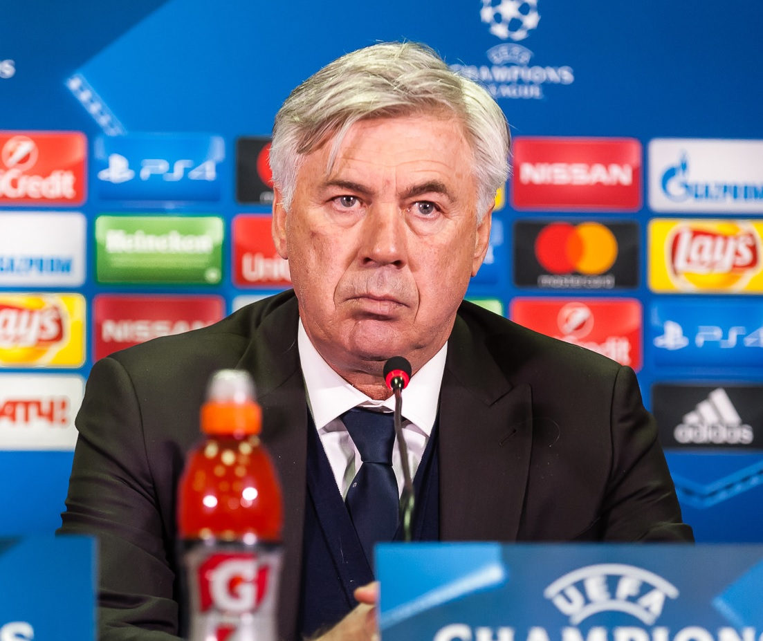 Carlo Ancelotti at a post-game press-conference after a Champions League game between FC Bayern Munich and FC Rostov.